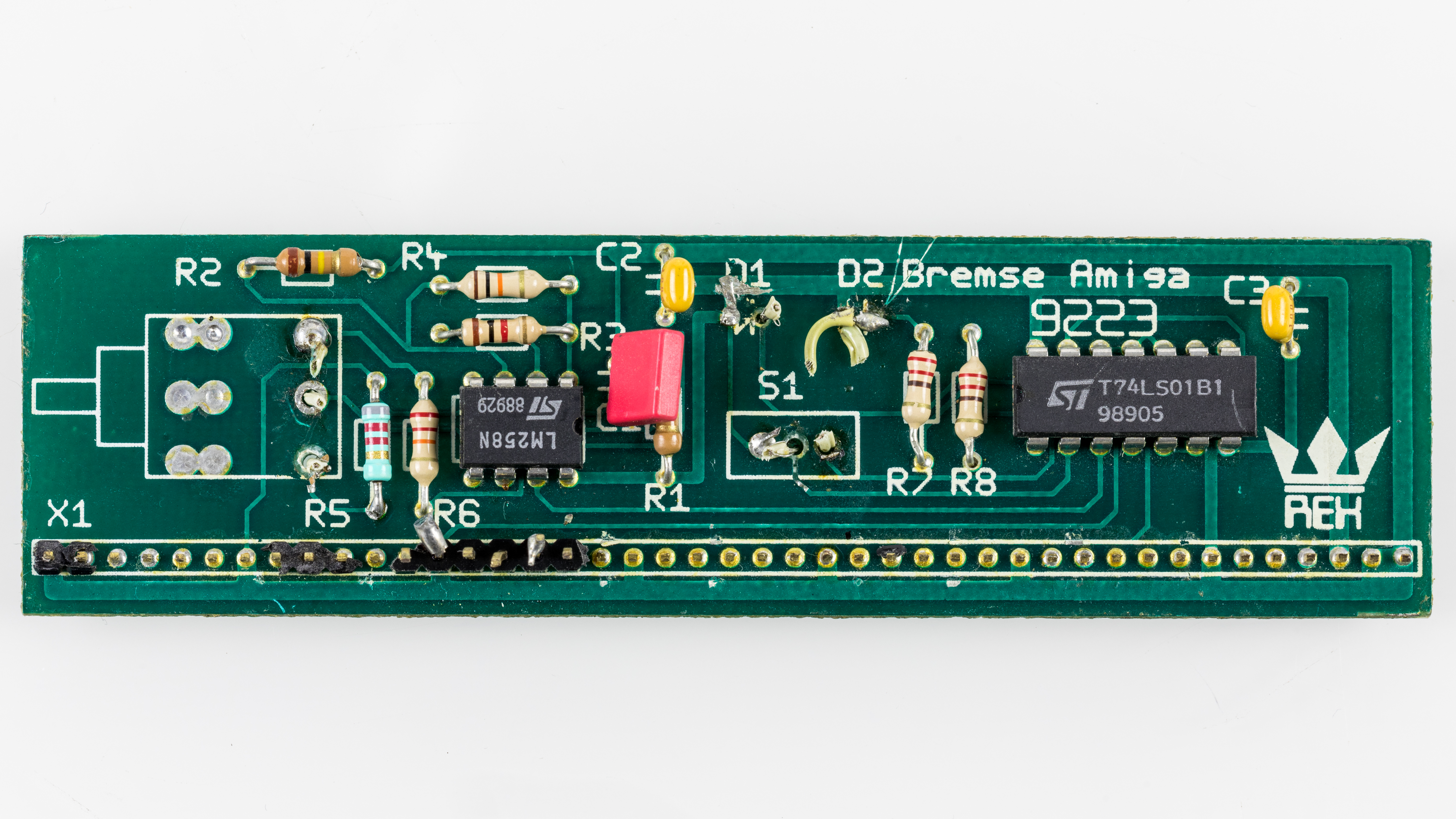 Rex Datentechnik - D2 brake Amiga